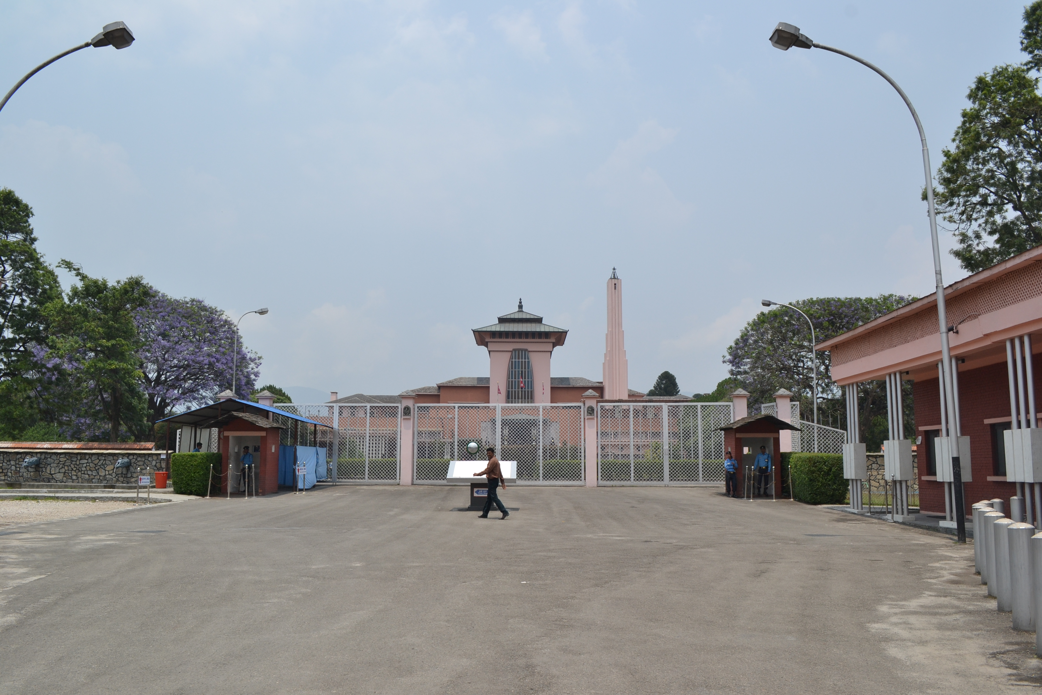 Royal Palace of Nepal.